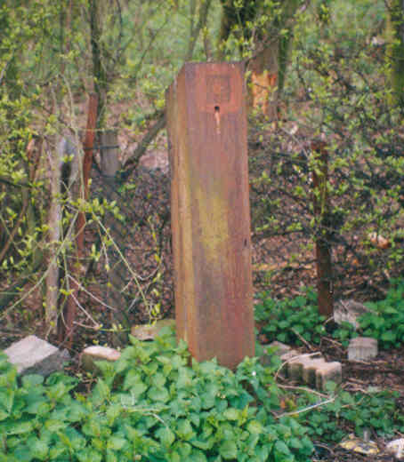 Detail of the tank obstacle of the siegfried line near Geilenkirchen in Germany